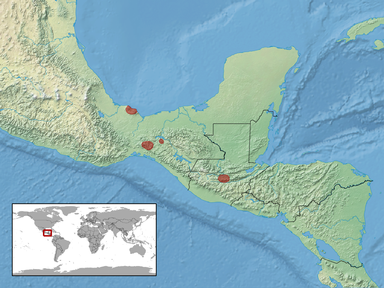 geographic distribution of Atropoides olmec (Native: Guatemala; Mexico)